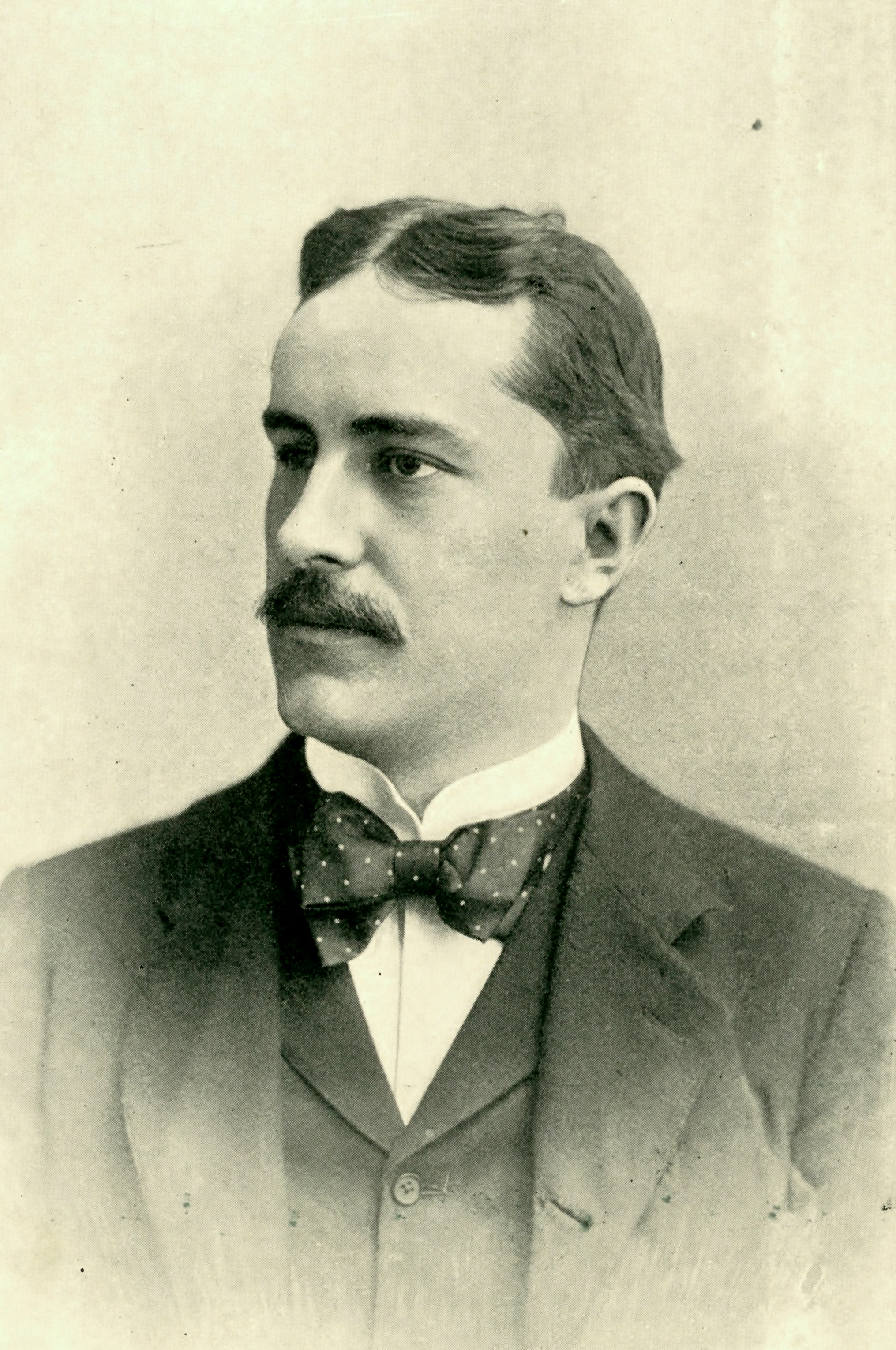 Chess player Richard Teichmann